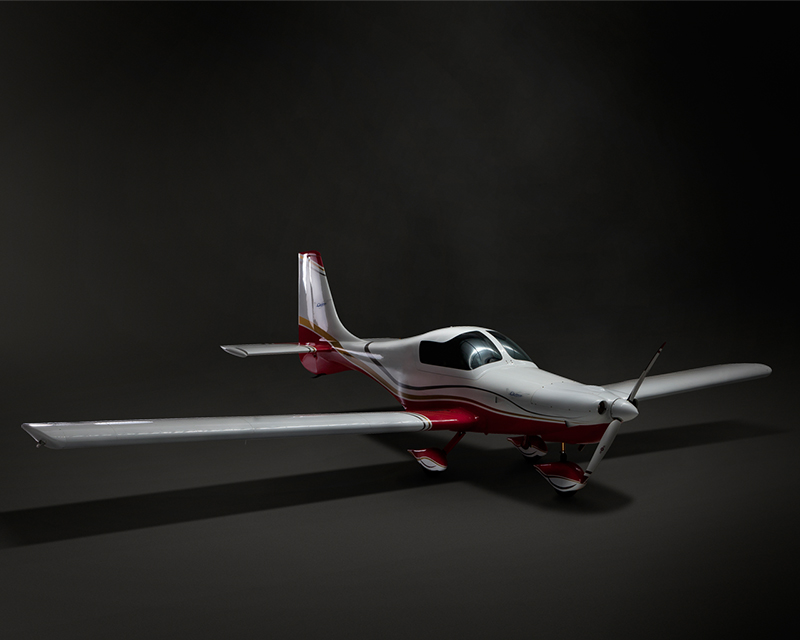 Quasar Lite II - 2012 . Photo by Felipe.